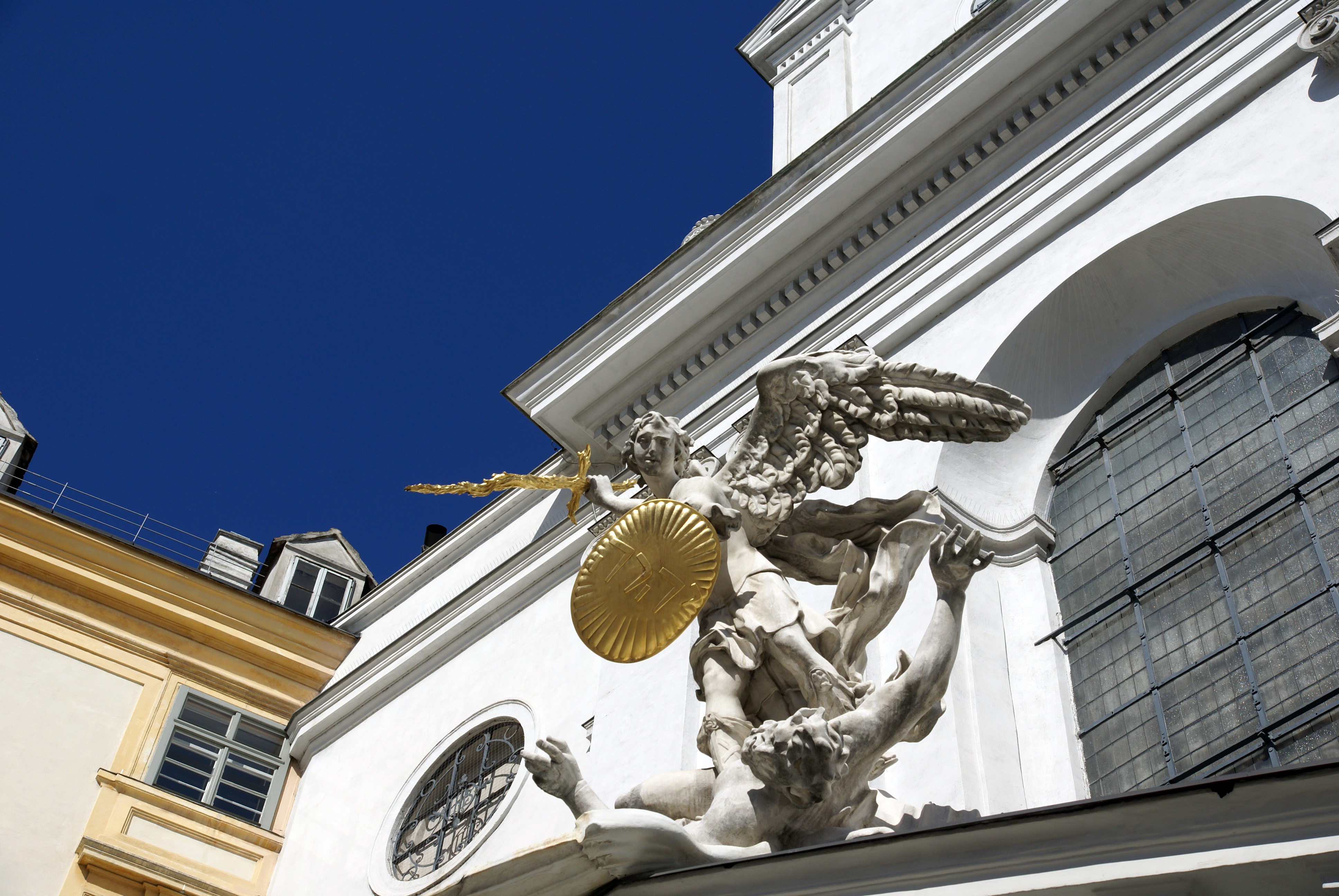 St. Michael, St. Michael's Church, Vienna, Austria